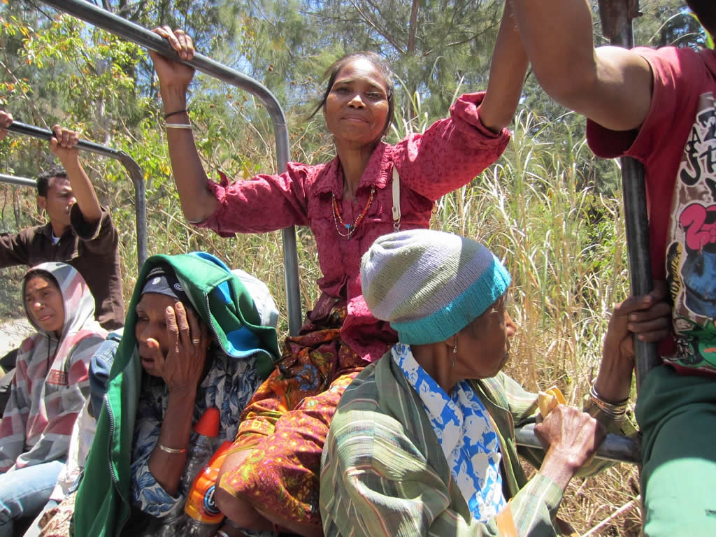 passengers on a truck heading for Maubisse